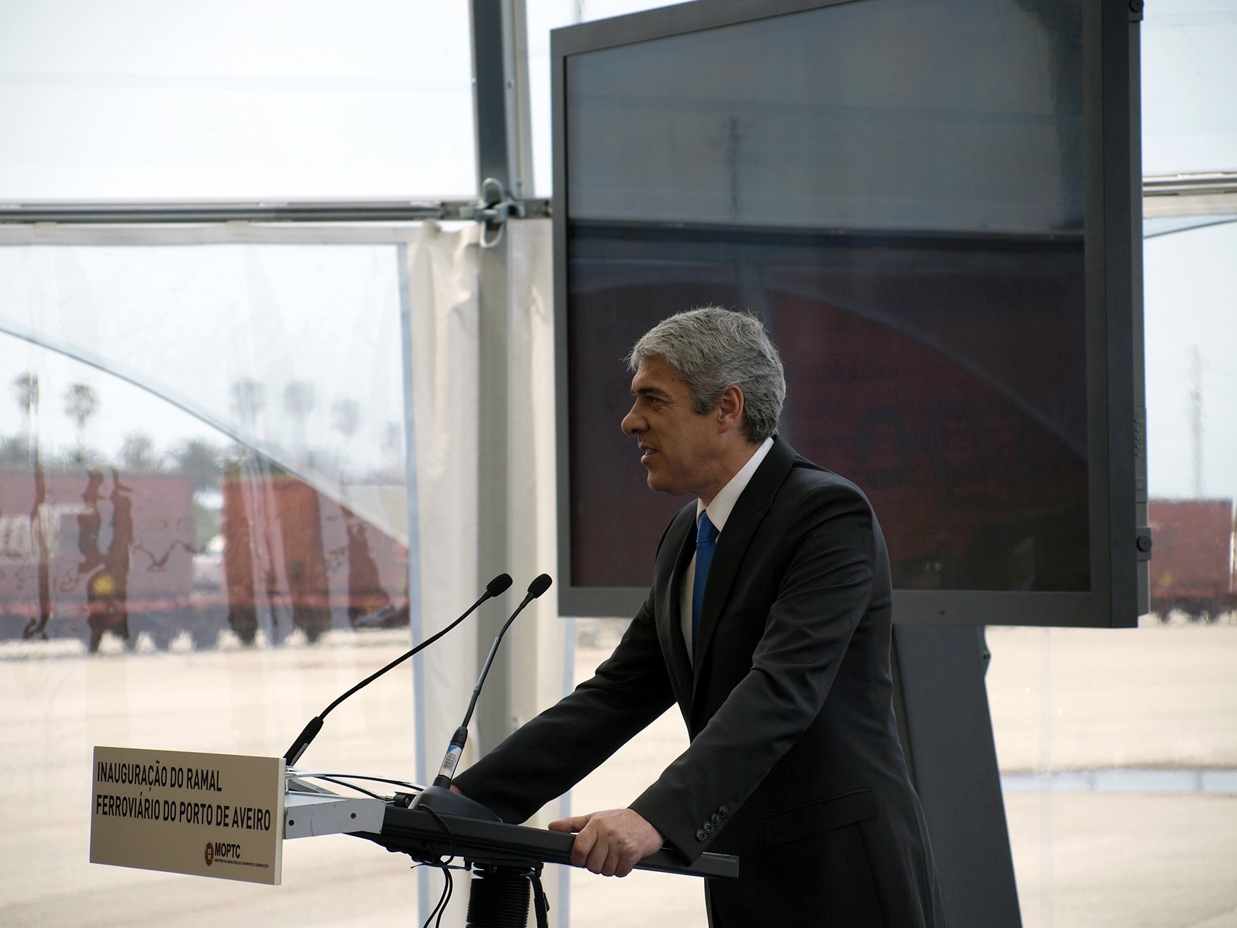 Port of Aveiro Railway Branch opening speech.